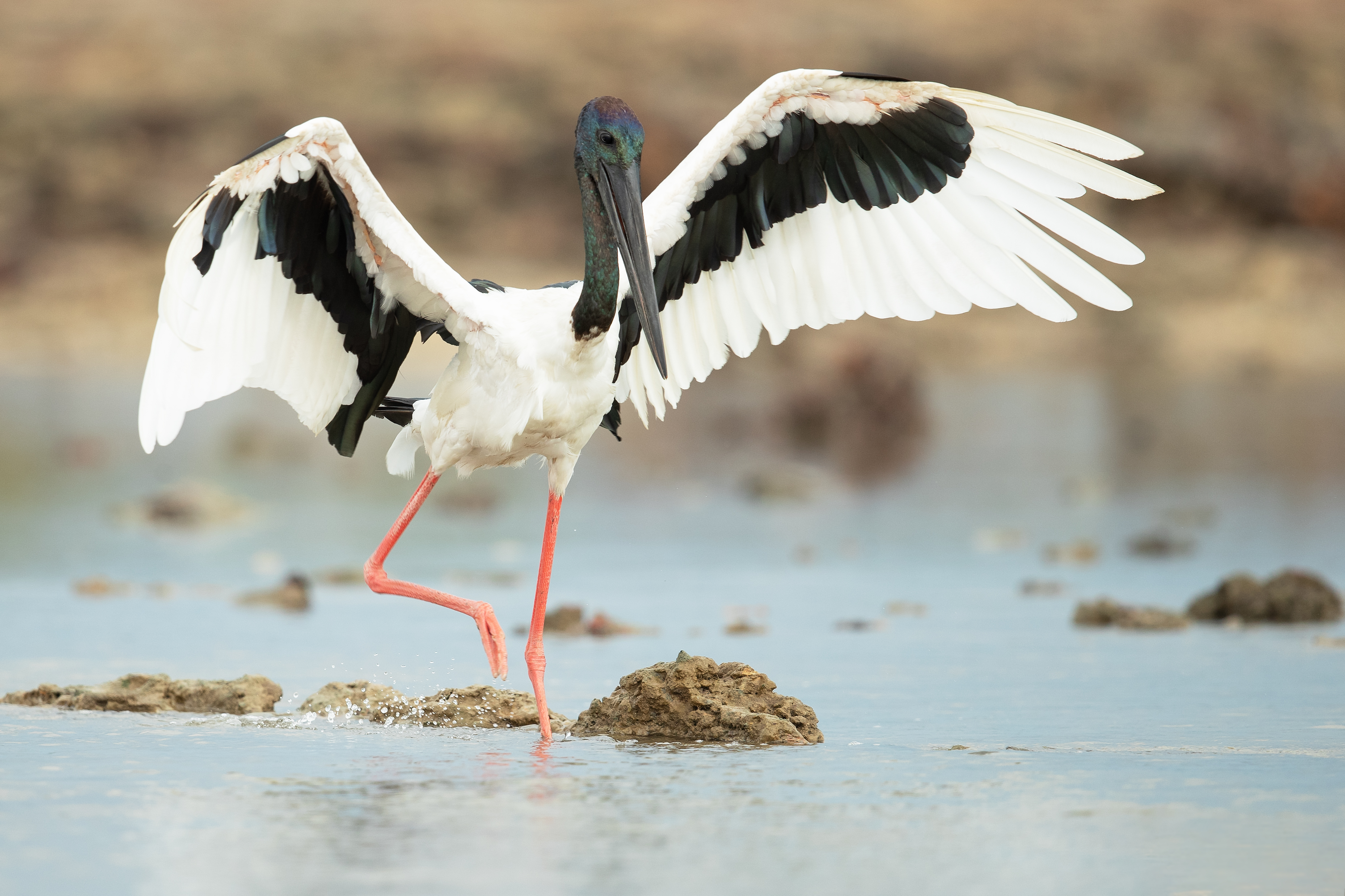 Black-necked Stork, Nightcliff, Darwin, Australia